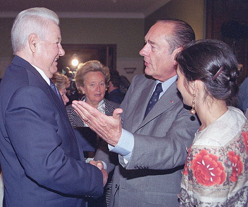 BARVIKHA. With French President Jacques Chirac.